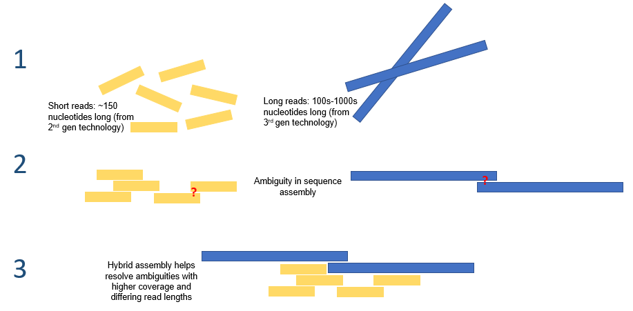 Long read lengths offered by third generation sequencing may alleviate many of the challenged currently faced by de novo genome assemblies. Hybrid assembly - the use of reads from 3rd gen sequencing platforms with shorts reads from 2nd gen platforms - may be used to resolve ambiguities that exist in genomes previously assembled using second generation sequencing. Short second generation reads have also been used to correct errors that exist in the long third generation reads.